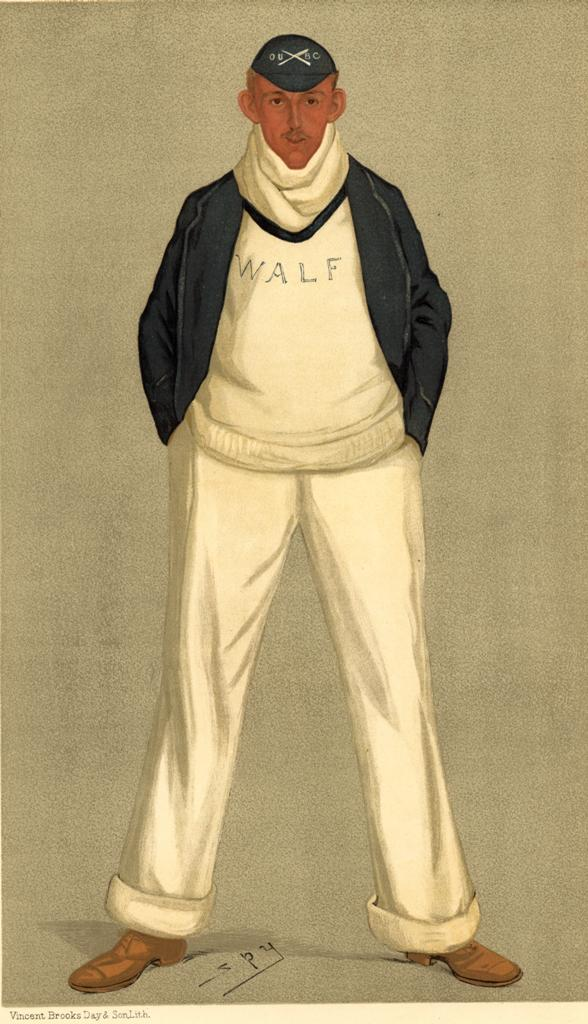 Caricature of William Alfred Littledale Fletcher (1869 - 14 February 1919) - “Flea”.